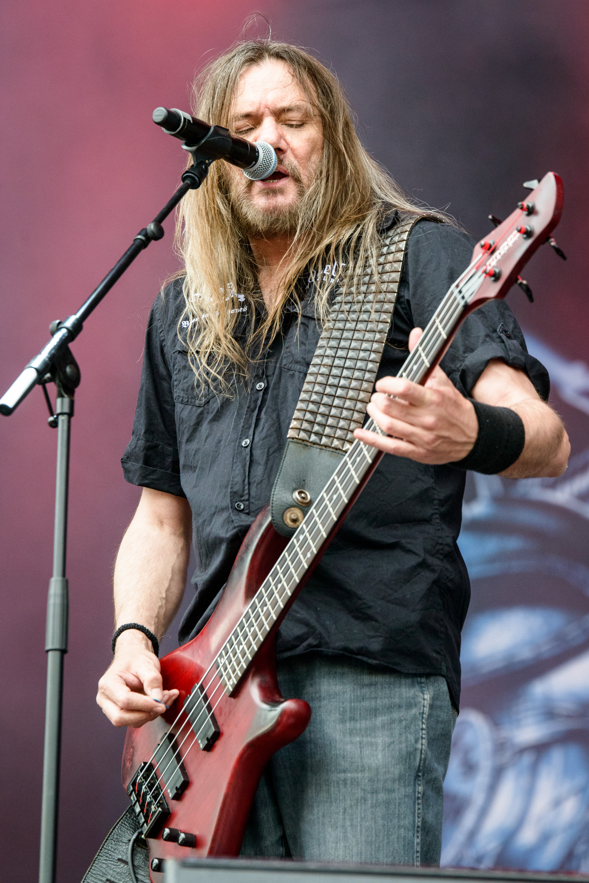 Sodom Live @ Rockavaria 2016